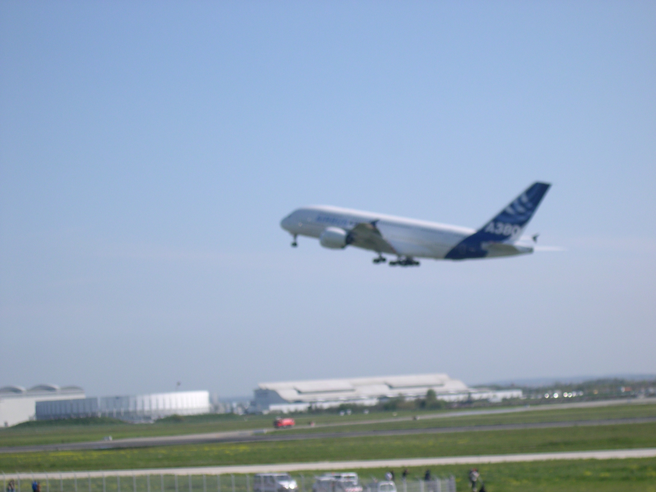 Airbus A380 first takeoff from Toulouse-Blagnac airport. 10:29